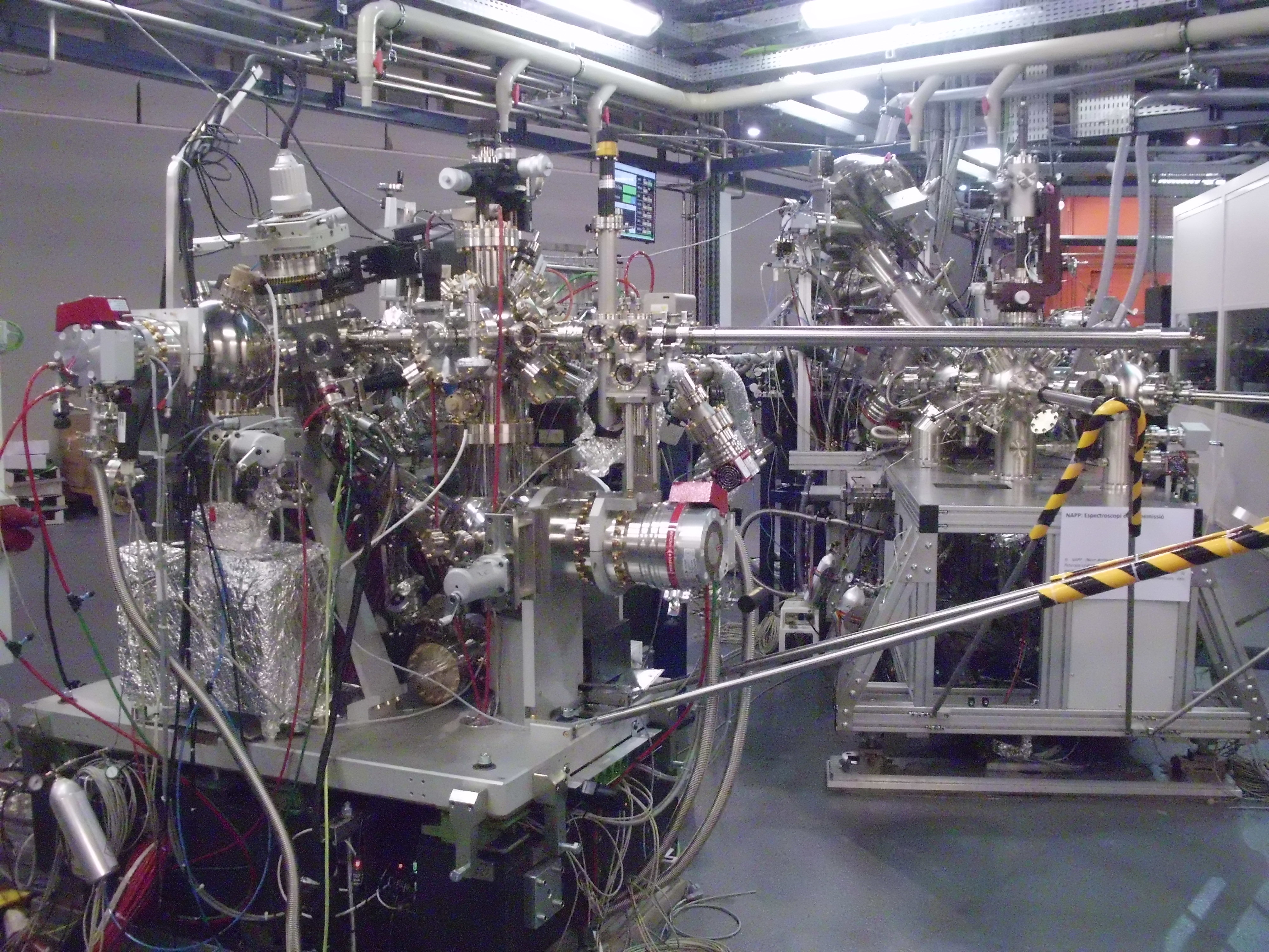 Beam line